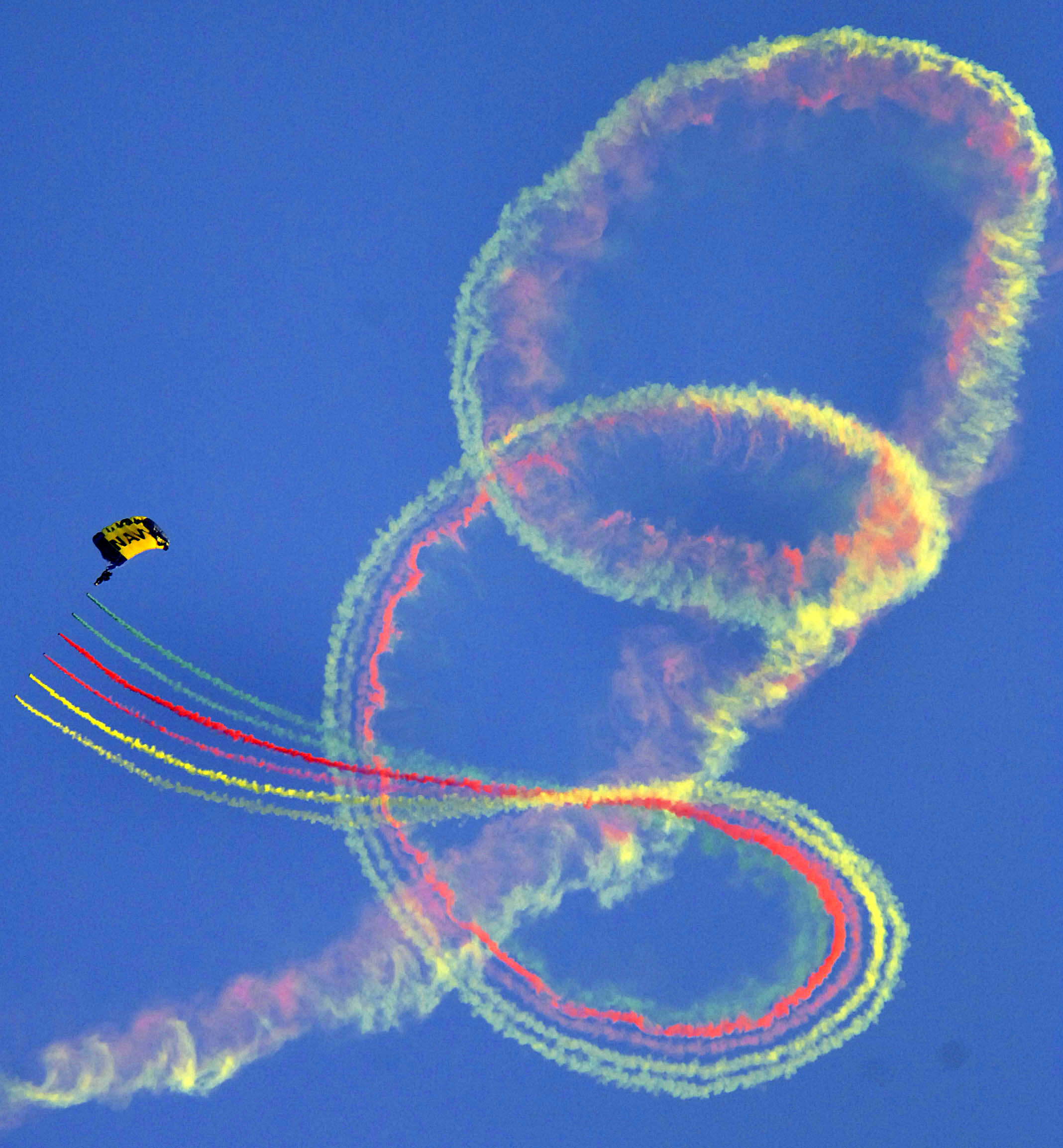 Los Angeles (Aug 6, 2005) - A Member of the U.S. Navy Parachute Team, the "Leap Frogs," descends over downtown Los Angles during the 2005 Extreme Games. The “Leap Frogs” are a fifteen-man team comprised entirely of U.S. Navy SEAL and Special Warfare Combatant-Craft Crewman (SWCC) personnel. This is the second year the U.S. Navy has been an associate sponsor the X Games. U.S. Navy photo by Photographer’s Mate 2nd Class Jayme Pastoric (RELEASED)